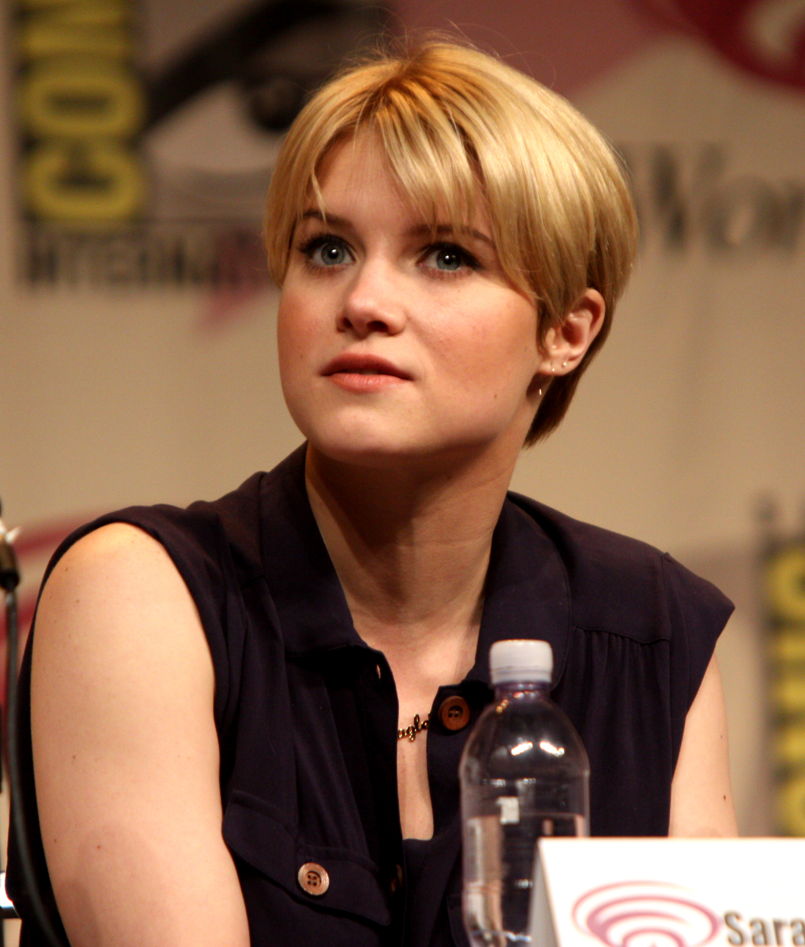 Sarah Jones speaking at Wondercon 2012 in Anaheim, California on March 18, 2012.